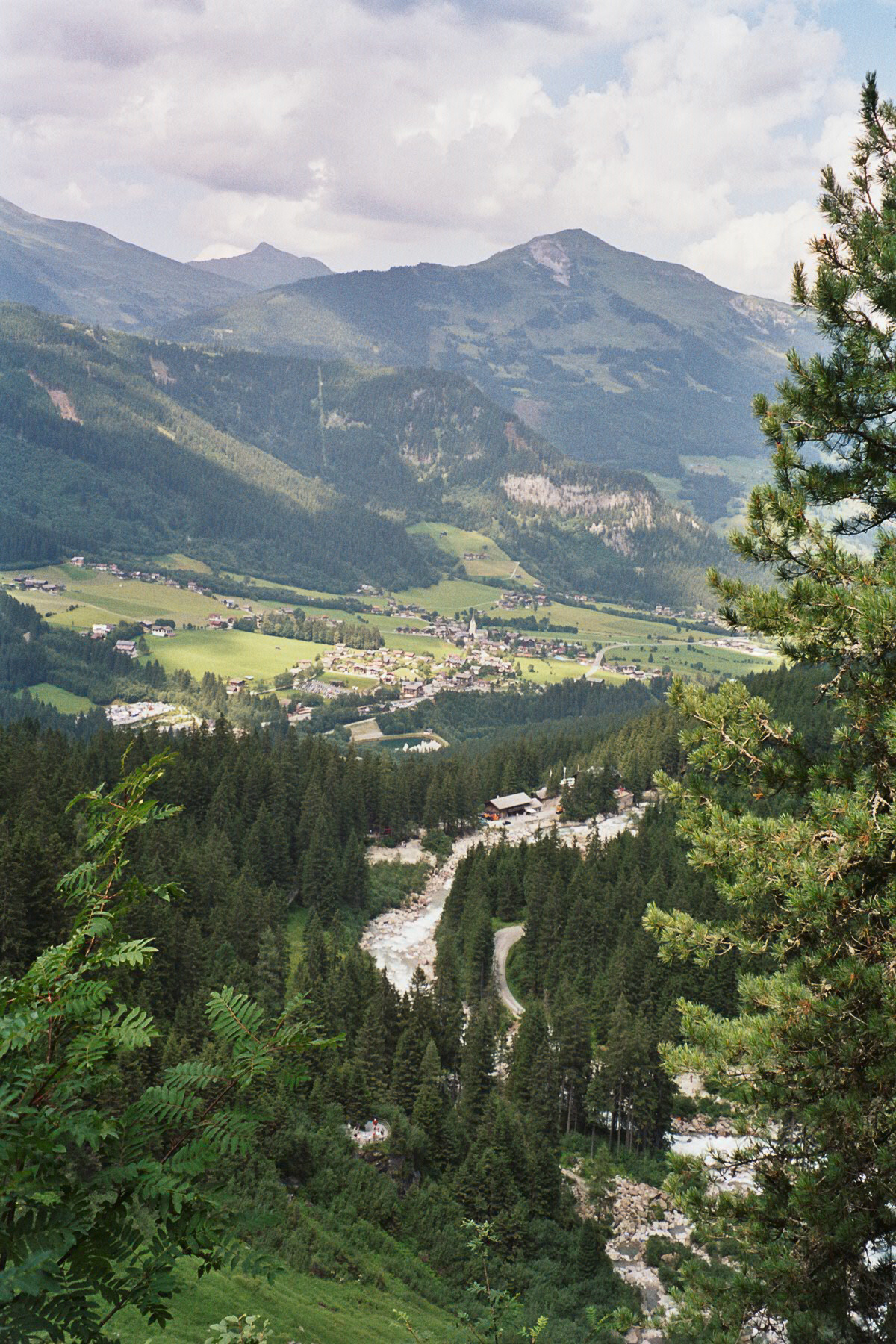 Blick auf Krimml / view of the town Krimml